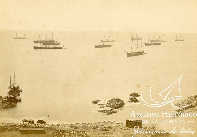 Bay of Pisagua after the capture of this port by the Chilean troops, on November 2, 1879, with some of the ships of the squadron and transports that had led the army, at anchor. On the extreme left, the gunboat Covadonga is distinguished; then, the Angamos cruise along with two transports on its starboard side; one of them is the Amazonas, armed in war, and distinguishable by its two suits. To the right, in the background, one can distinguish the armored Admiral Cochrane, recognizable as having been stripped of his rigging, except for his male sticks. To starboard of this one is the frigate of British war HMS Thetis. Source: Chantal Roberts Collection. Original photography of the time.